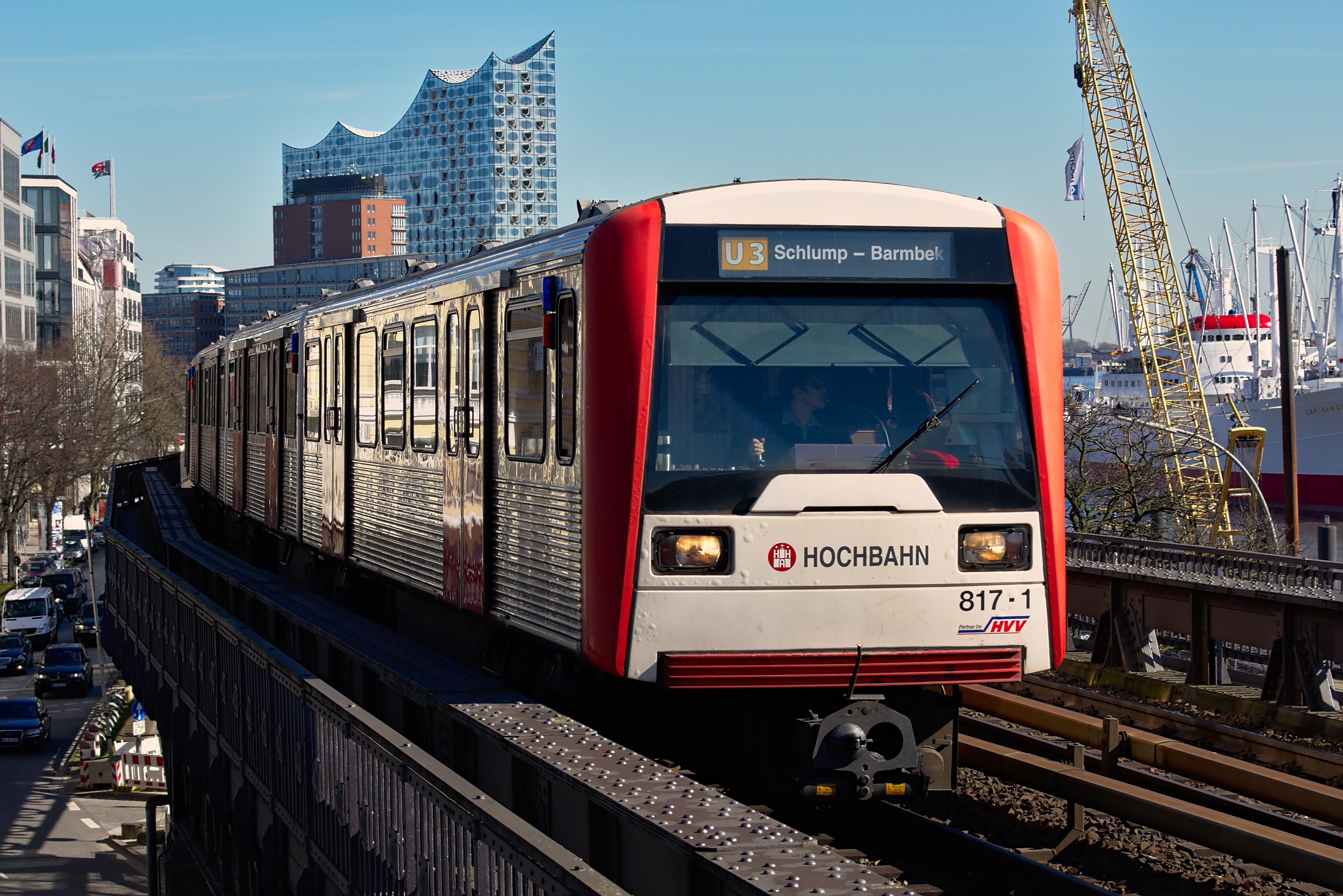 A modernised Hamburg underground (Hochbahn) train of type DT3 (No. 817) on the U3 line entering Landungsbrücken station.